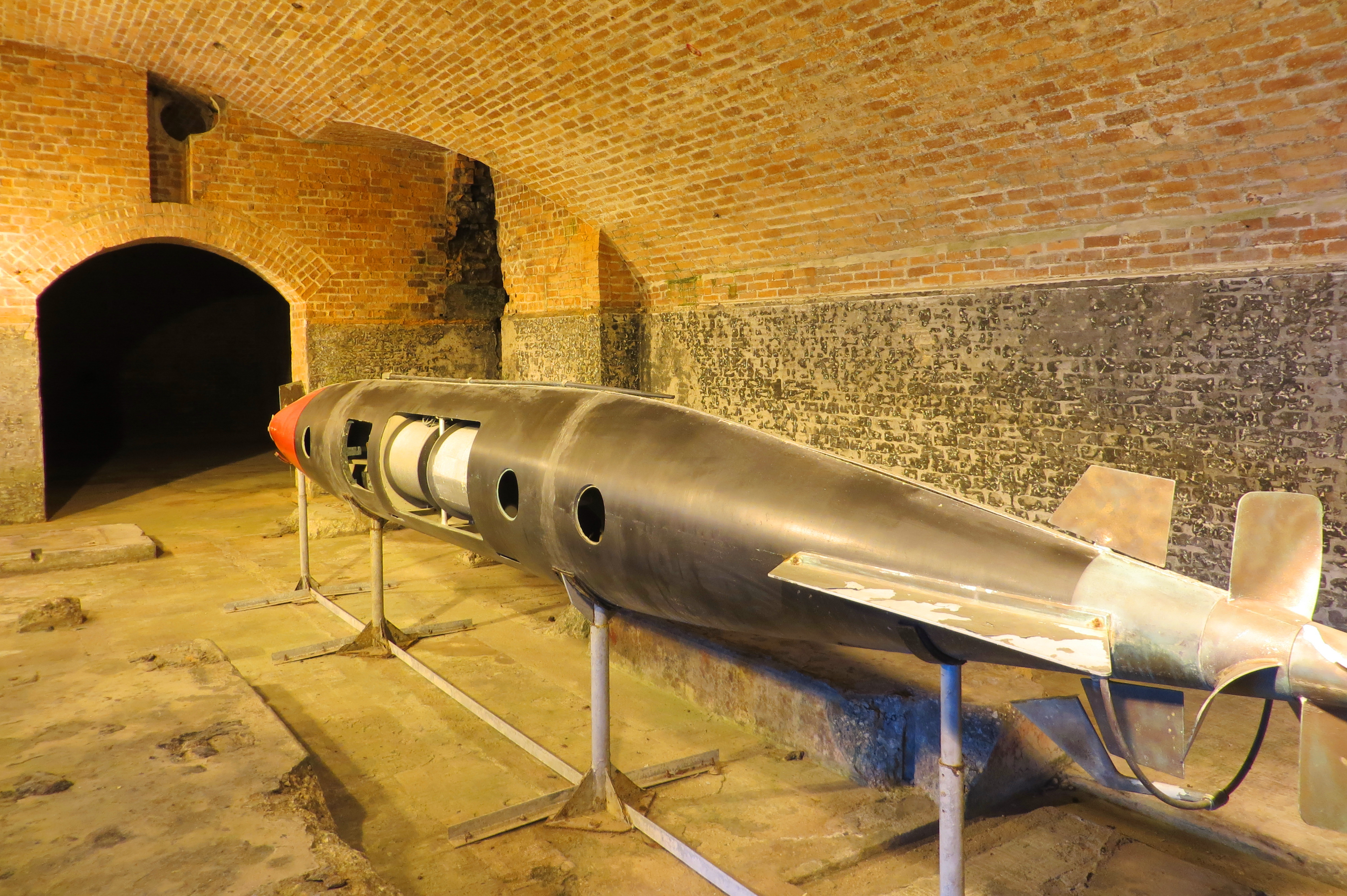 The Brennan Torpedo Station, Hong Kong Museum of Coastal Defence, Sau Kei Wan, Hong Kong.